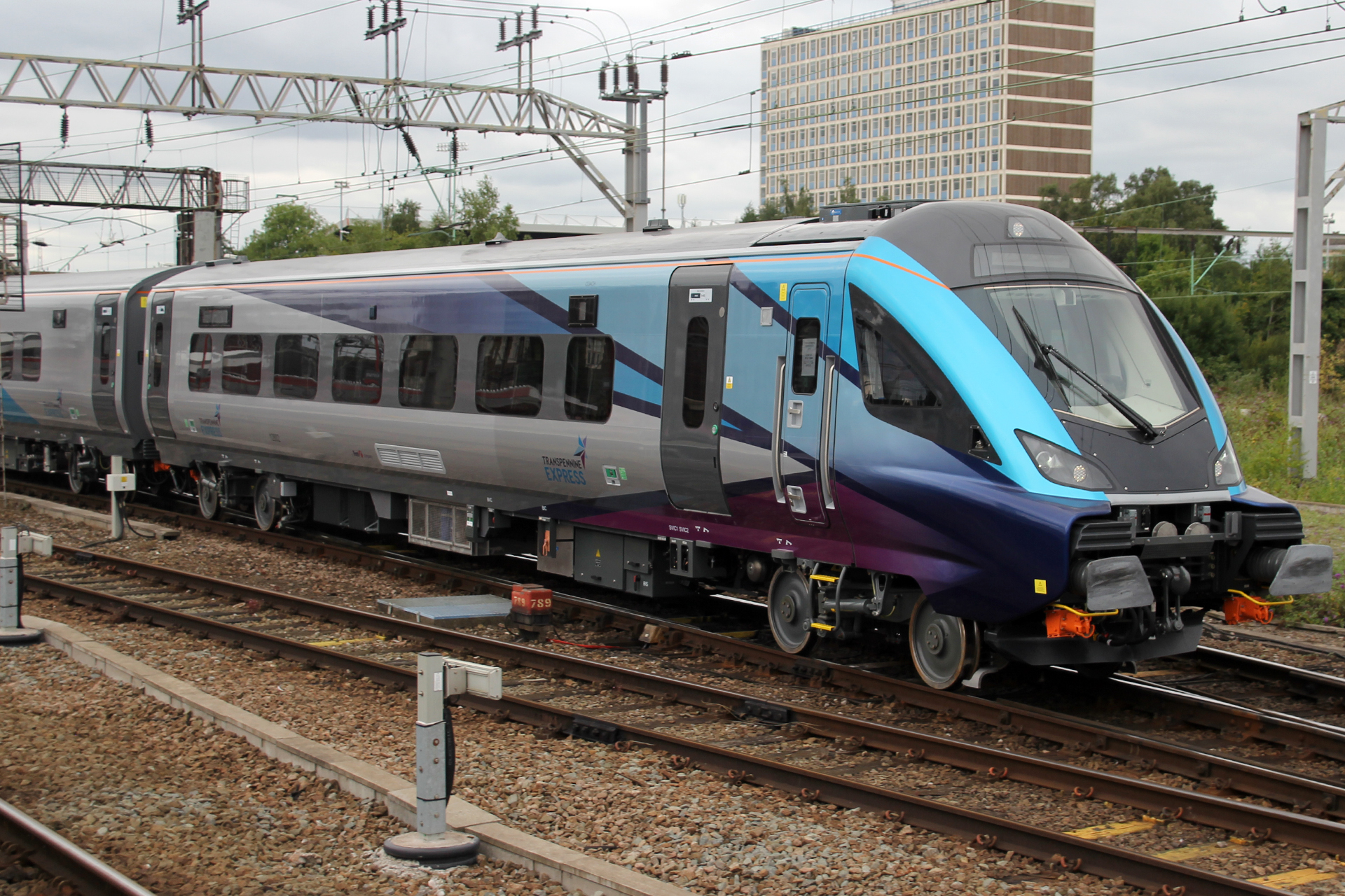 TransPennine Exress Mark 5a first test at Crewe 28/08/18